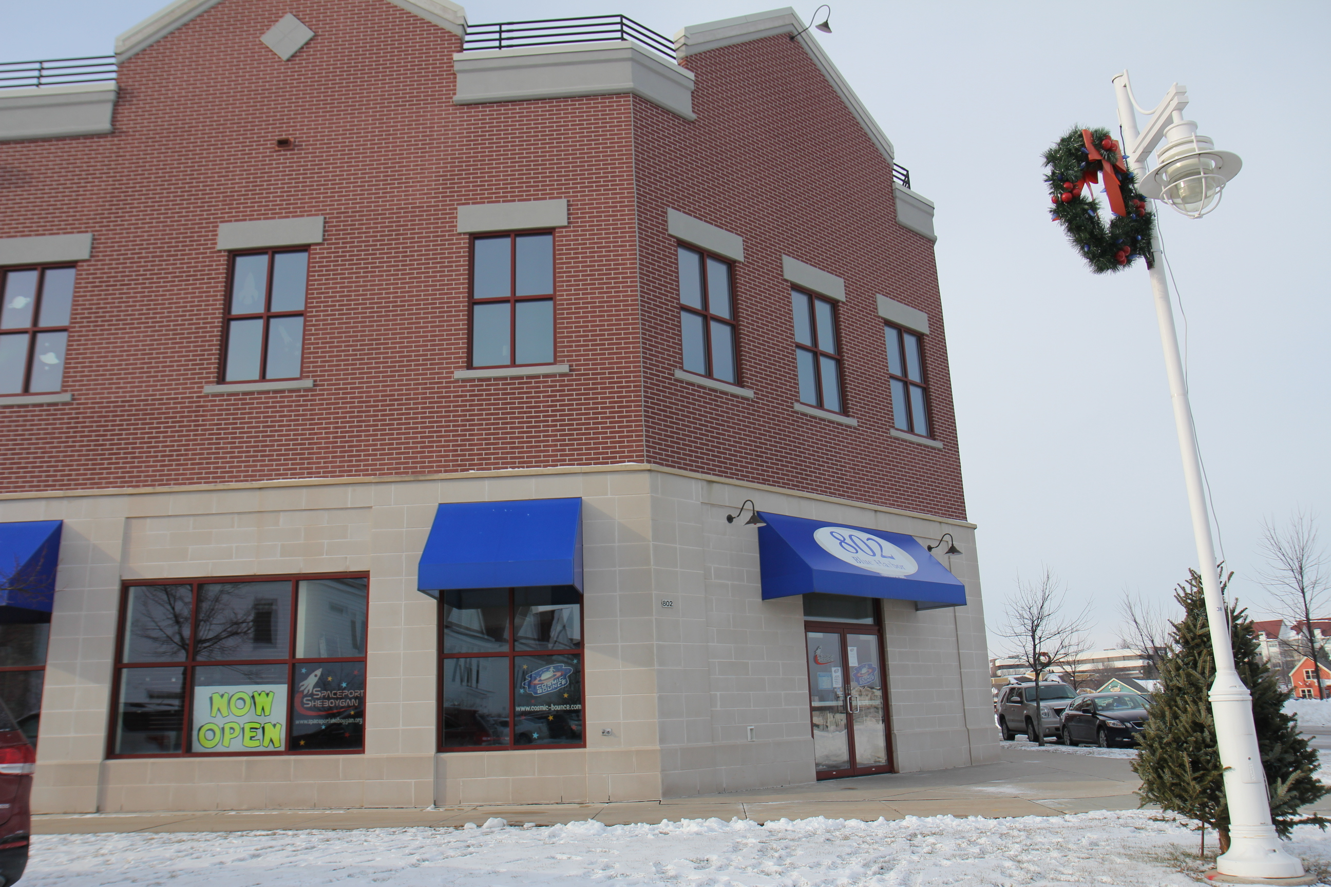 The entrance for Spaceport Sheboygan.